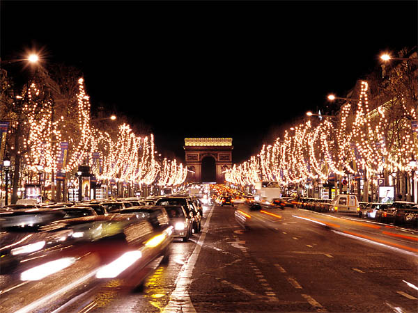 ChampsElysees in time of Christmas